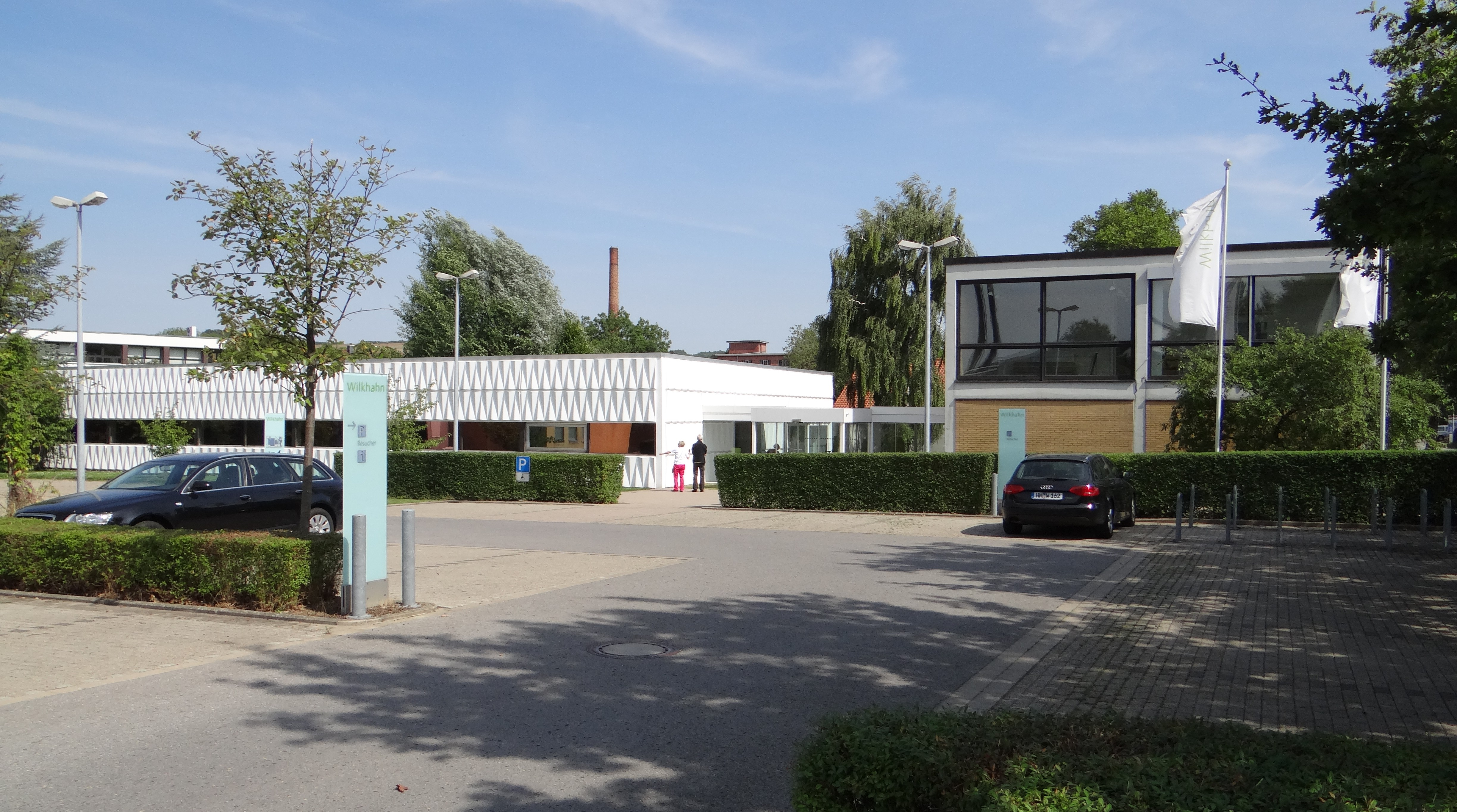 Office building of Wilkhahn furniture in Eimbeckhausen, Germany.